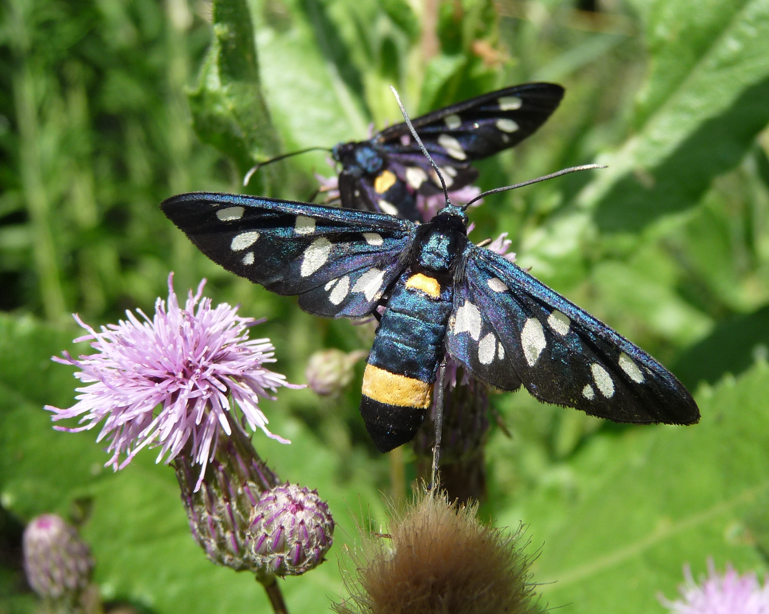 Amata phegea, near Livorno, Tuscany, Italy